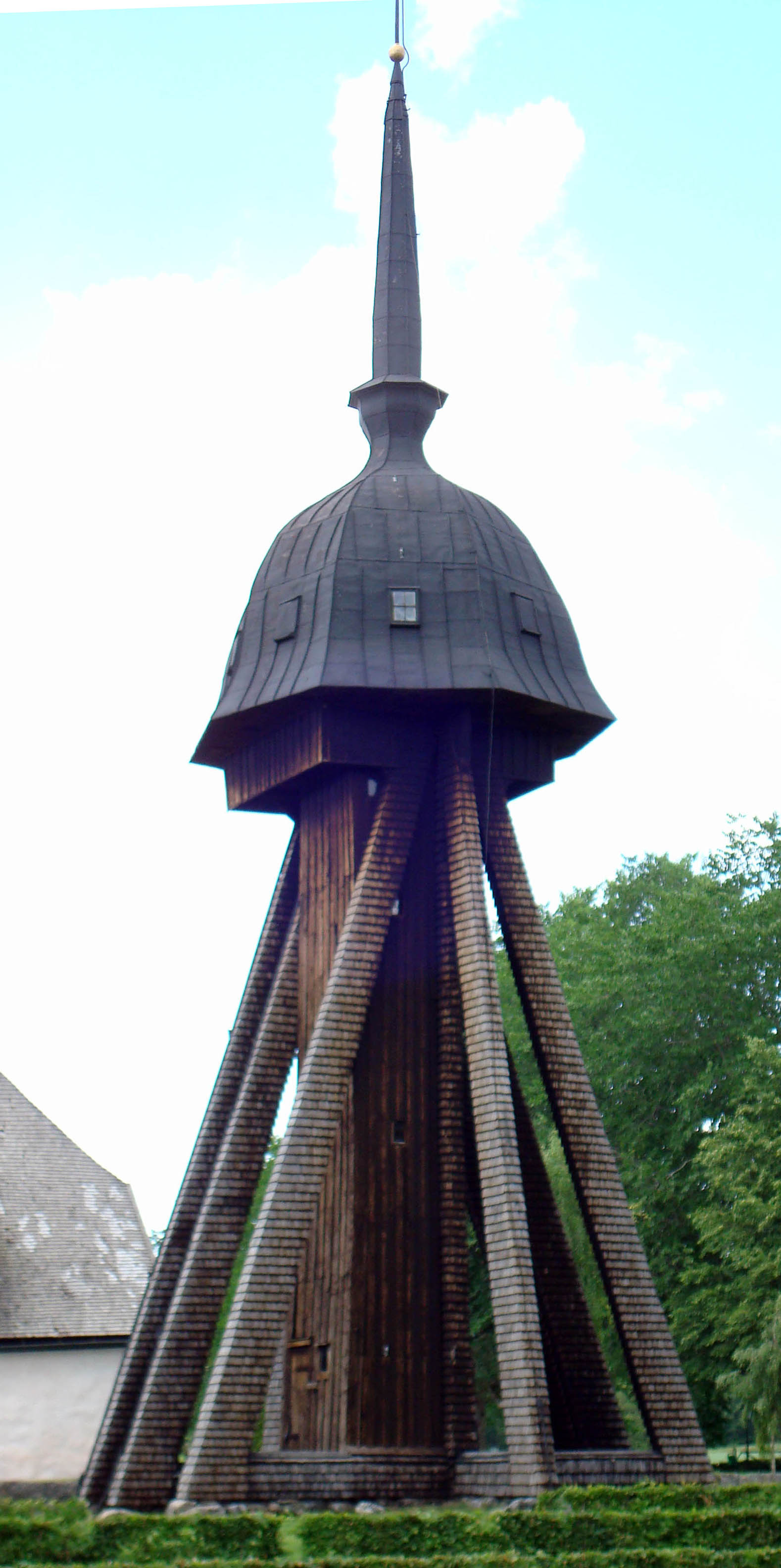 The steeple of Hakarp